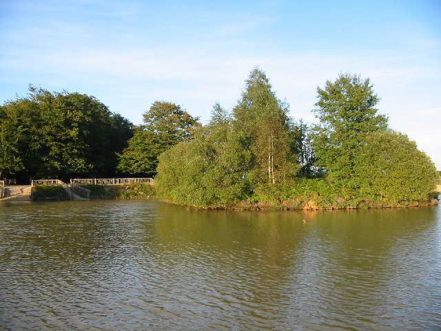 Cadmans Pool, New Forest. Looking North.This pond has recently been restored following viral infection which killed all the fish.